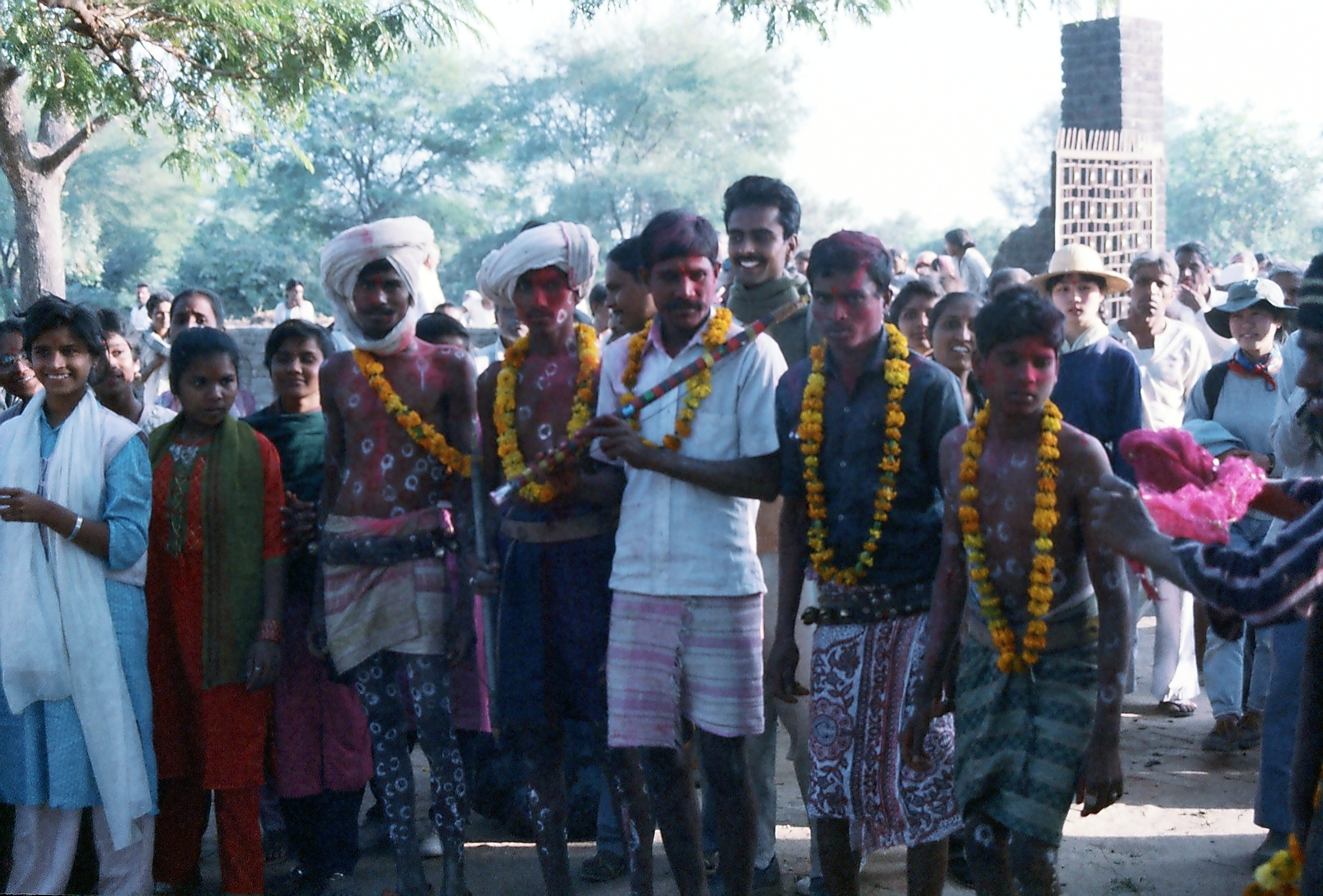 Traditional welcome performance, Mitral, Kheda district, Gujarat.jpg